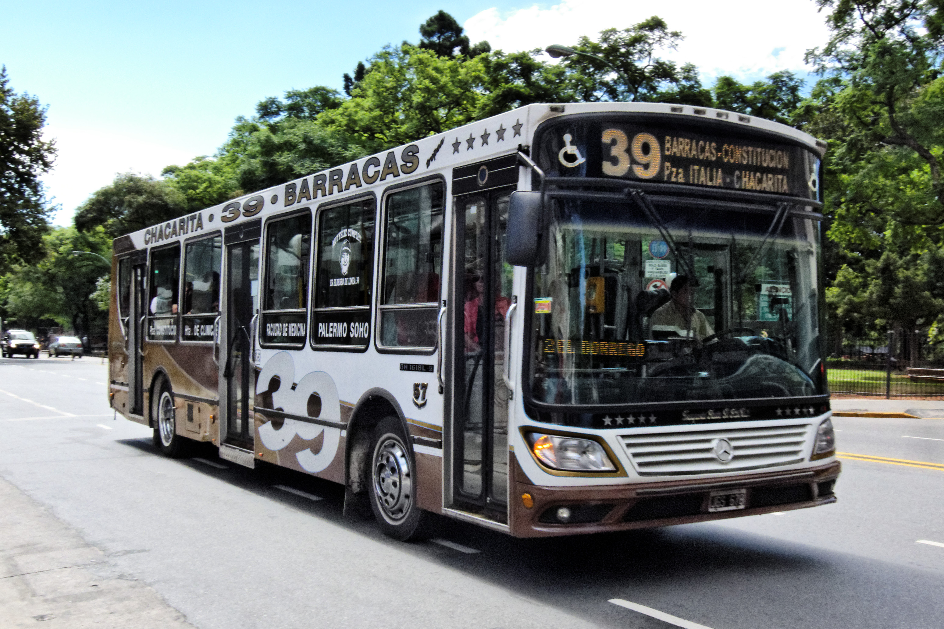 Italbus Tropea bus (reg. JGS 678, #57) with Mercedes-Benz OH 1618 L-SB chassis in Buenos Aires, Argentina. Colectivo, line 39, Transportes Santa Fe S.A. operator.